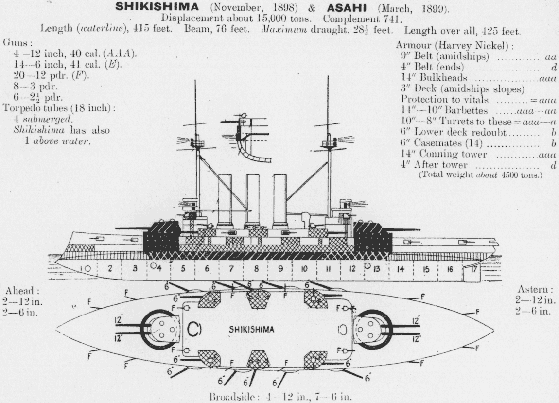 Left elevation and plan diagrams of IJN Shikishima & Asahi, Shikishima Class Battleship of Imperial Japanese Navy.